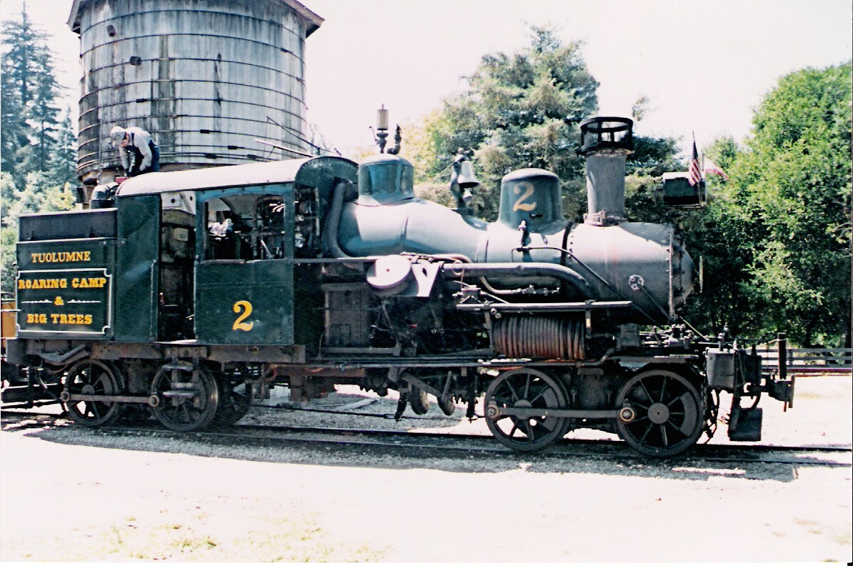 Roaring Camp and Big Trees Narrow-Gauge Railroad #2, the Tuolumne, a two-truck Heisler locomotive, arrives at the depot in Felton, California in the summer of 1993. Photograph by Robert A. Estremo, copyright 1993.